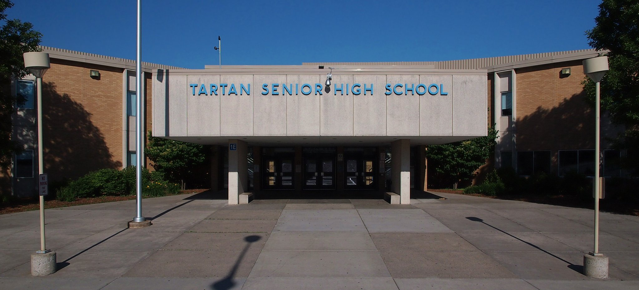 Tartan Senior High School, 828 Greenway Ave N, Oakdale, Minnesota, USA. Viewed from the east.